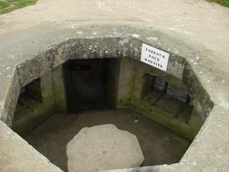 Tobrouk defensive concrete position for mortars. Longues-sur-Mer France 2007